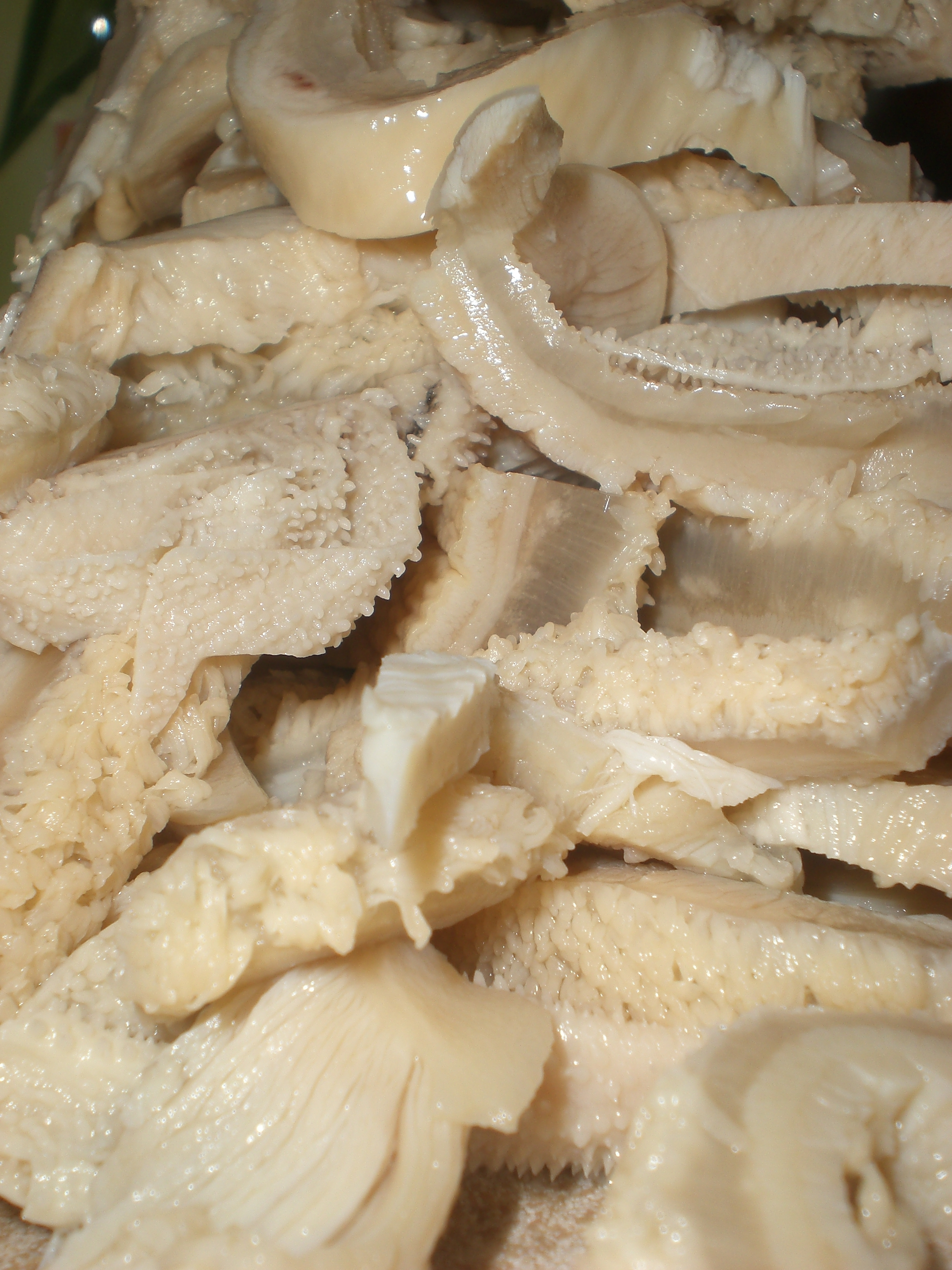 Italian tripe